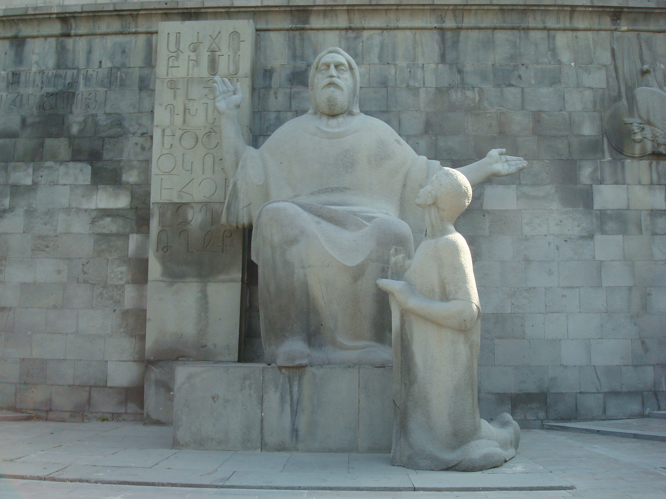 Statue of Saint Mesrob at Matenadaran in Yerevan, Armenia